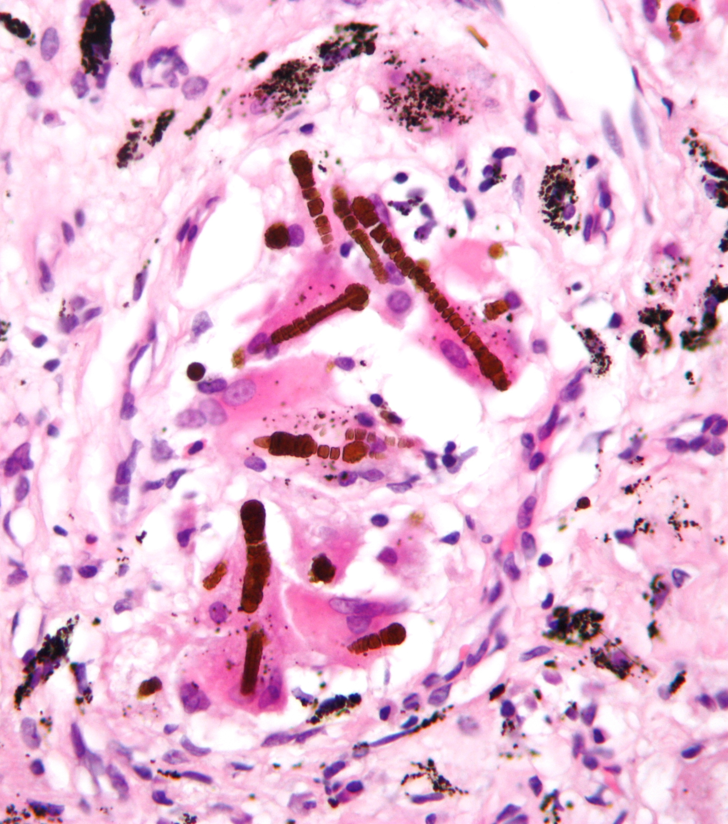 High magnification micrograph of ferruginous bodies, also asbestos bodies, as seen in asbestosis. Lung biopsy. H&E stain. Ferrunginous bodies are rust coloured (red/brown) baton-shaped segmented rods. Anthracotic pigment (clumps of small black particles) is also seen on the micrograph (at the periphery). See also Image:Asbestosis high mag.jpg - Ferruginous bodies in asbestosis, same case - lower magnification.